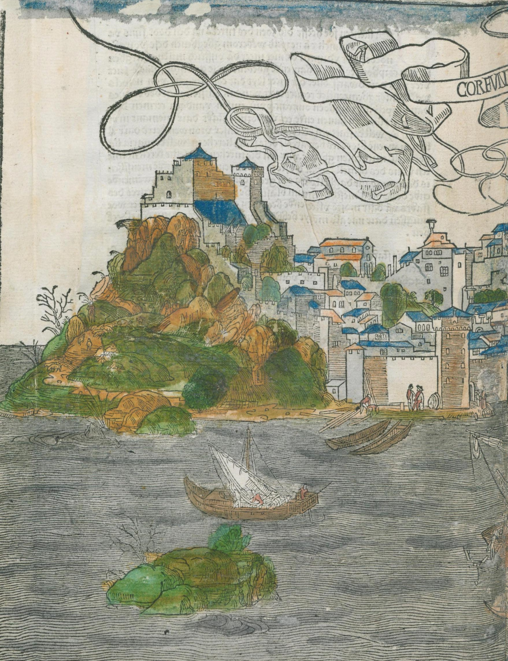 Breydenbach, Die heylighe bevarden tot dat heylighe grafft in Iherusalem: detail of double-page spread of Corfu